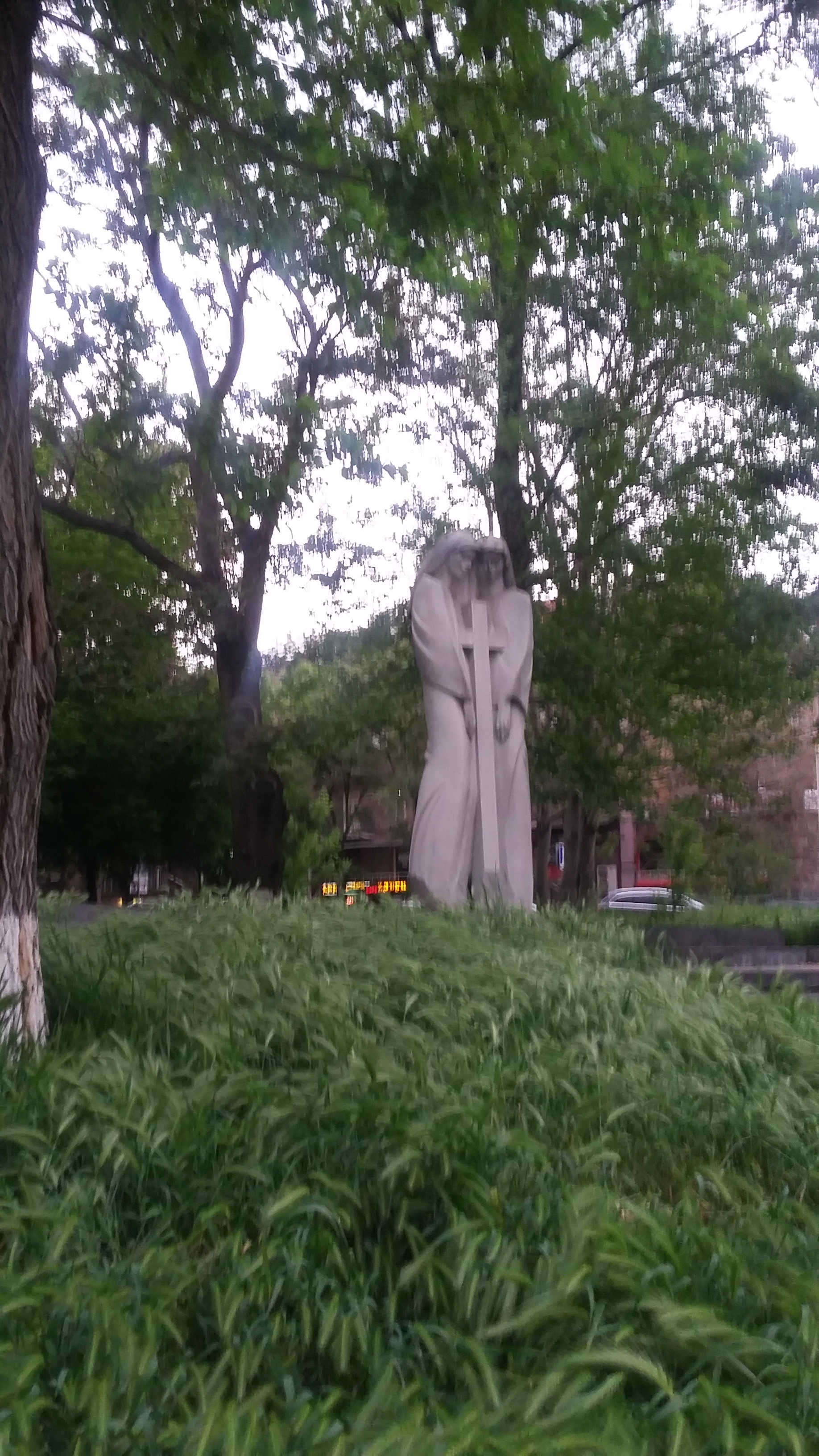 United Cross Monument (Yerevan)